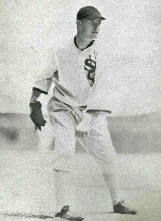 Black & White postcard of Chicago White Sox professional baseball player Bill Chamberlain, 1932.